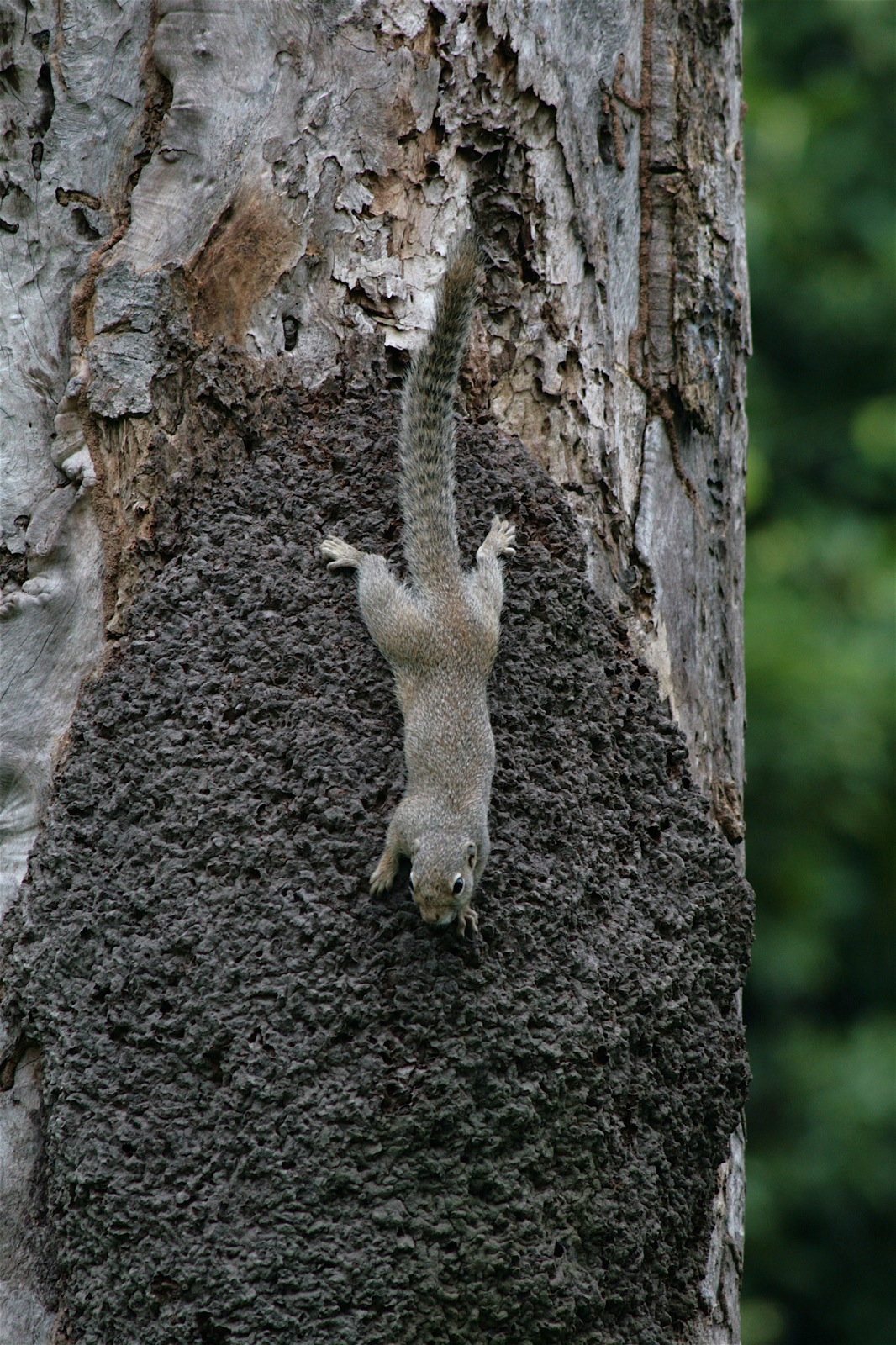 Heliosciurus gambianus. Identified using Kingdon, 2004, The Kingdon Pocket Guide to African Mammals. There are three species of squirrel in Gambia. Xerus erythropus has a lateral line, Heliosciurus rufobrachium has red limbs, and H. gambianus looks exactly like this one.